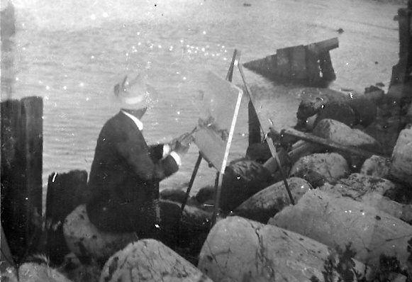 Photograph of Paul R. Schumann painting in open air.